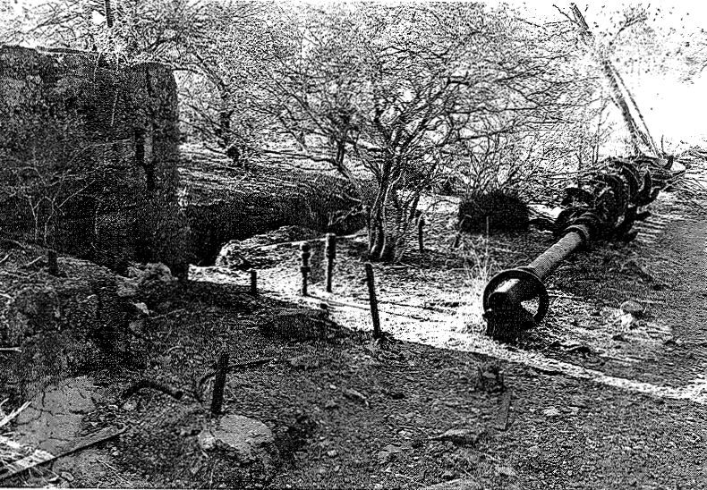 Homeward Bound Battery and Dam, battery site from SE (1994)